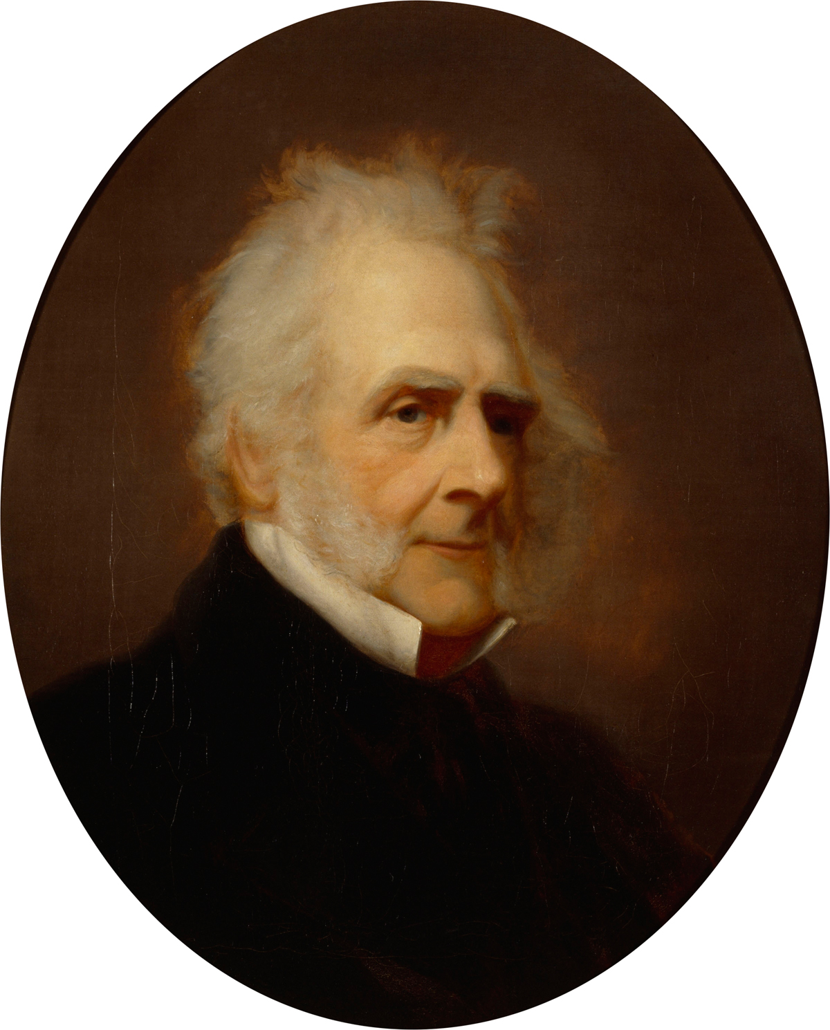 Portrait of Francis Sacheverel Darwin by an unknown artist of the English school.